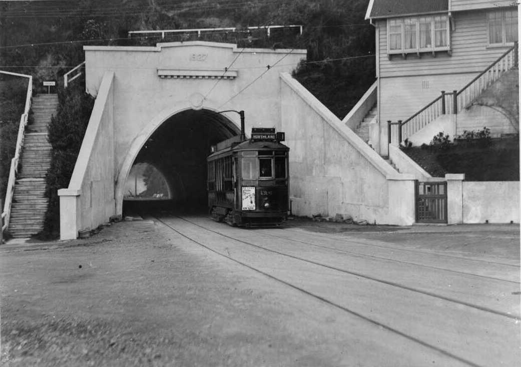 Northland, Wellington, tram tunnel opened 4 June 1929